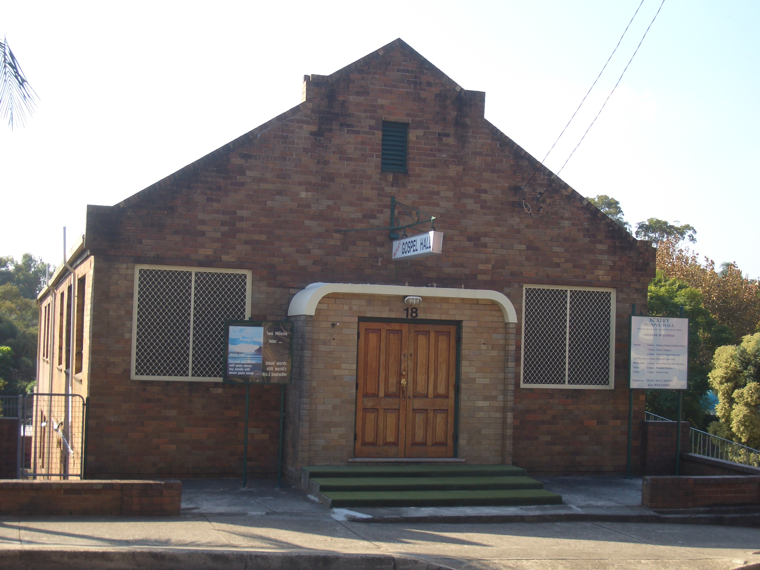 Bexley Gospel Hall, Abercorn Street